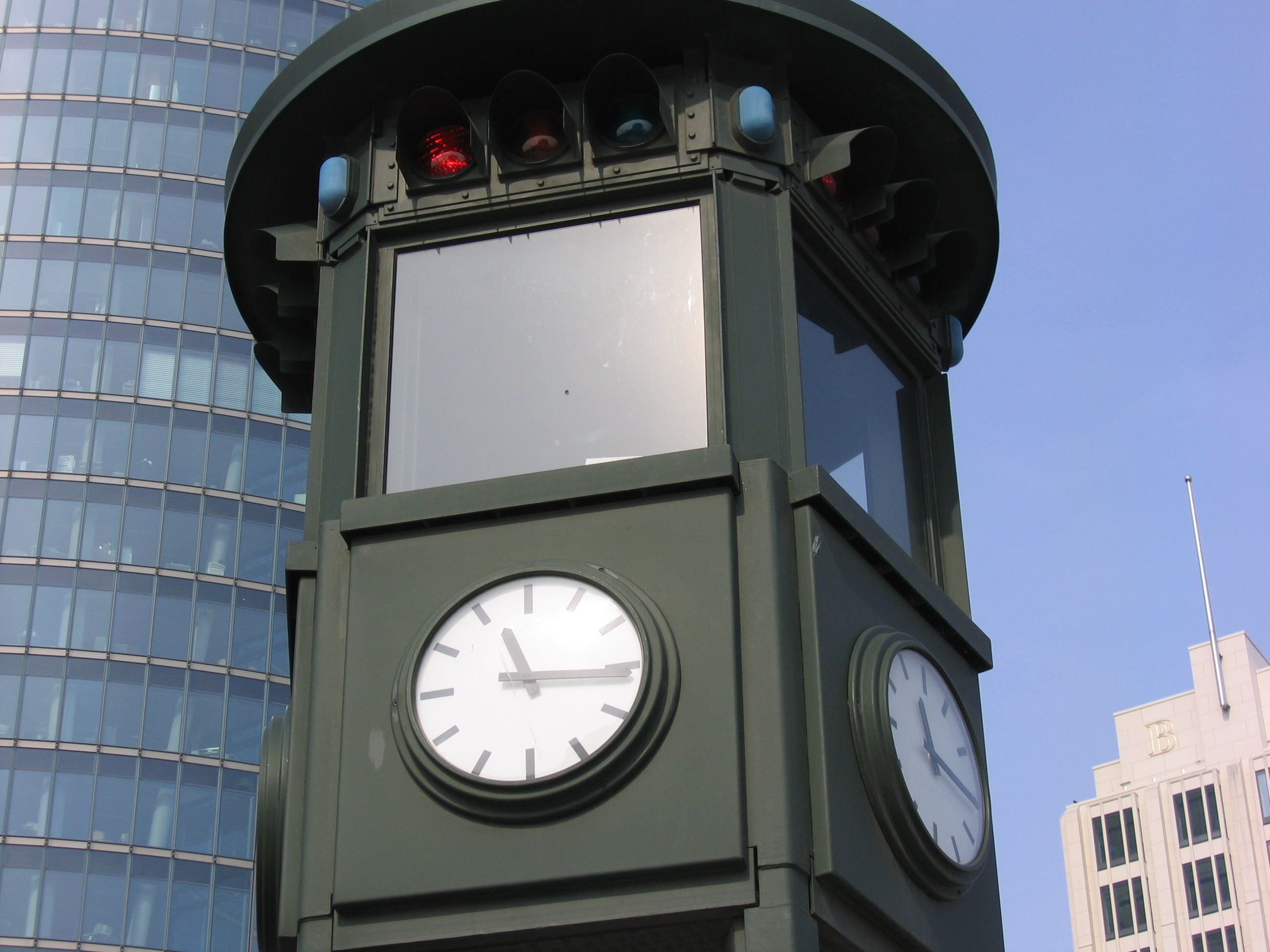 Potsdamer Platz Replica of the traffic tower of 1924